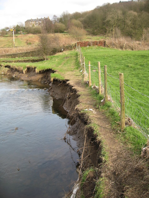 River Erosion At this sharp bend on the river Irwell the recent heavy rain and high water level has washed a large section of the embankment away. This has had a serious effect on the Irwell Sculpture Trail that runs along side the river. As you can see at one point the path is only 10 inches wide when this picture was taken and is in a very unstable condition. A couple of months ago the path at this point would have been wide enough for a car.